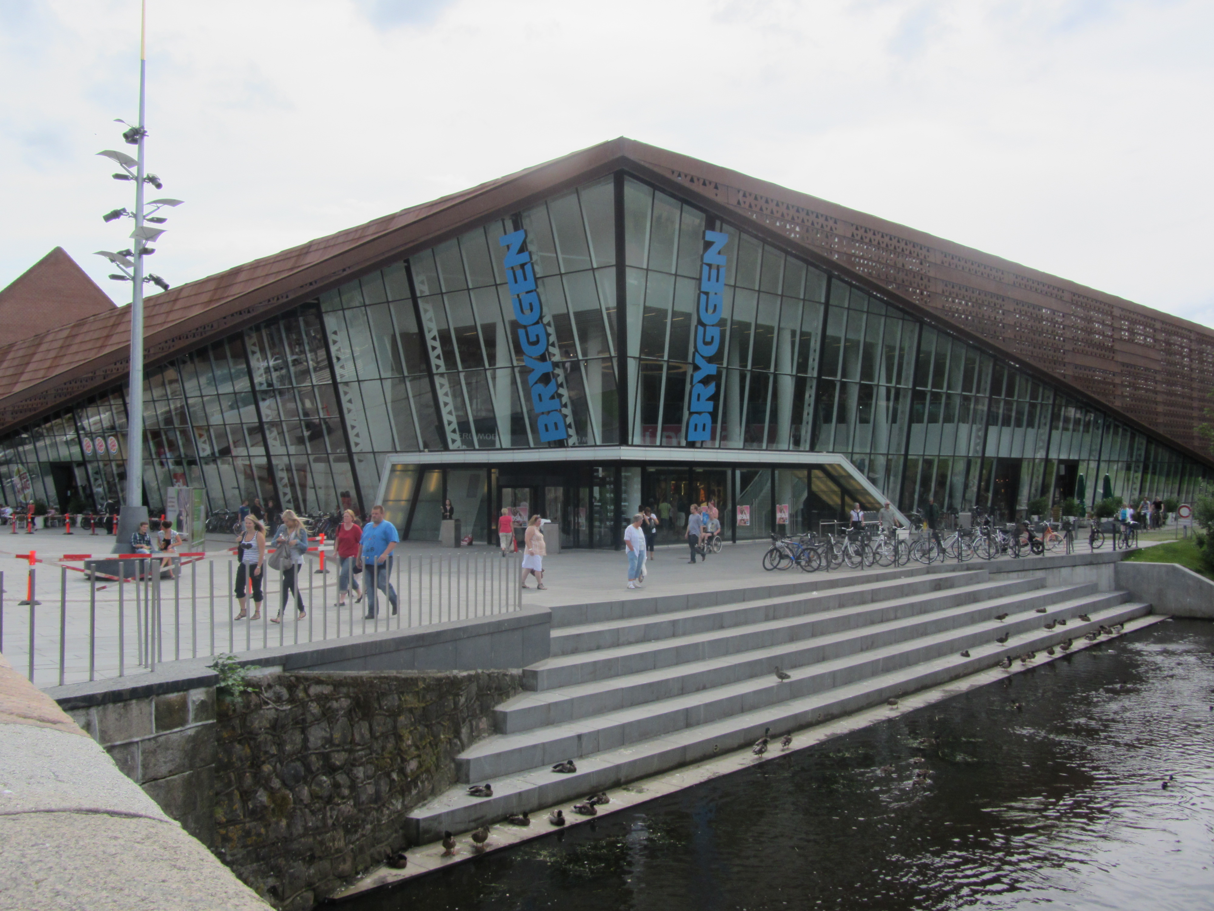 Bryggen shoppingcentre i Vejle; Denmark